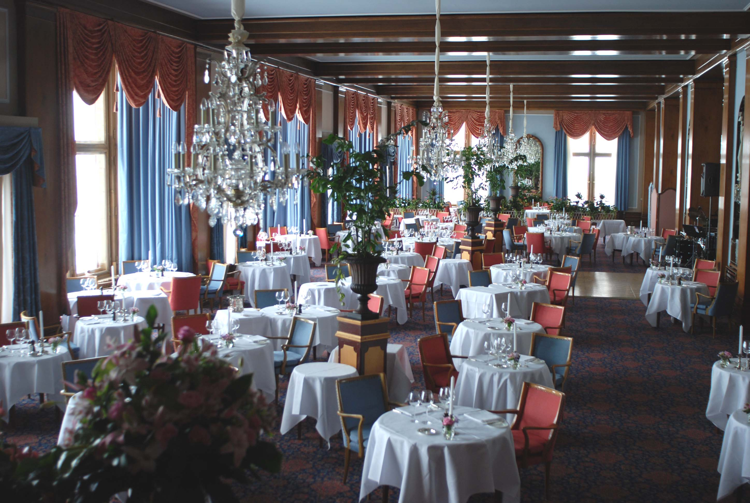 The dining room of the Palace Hotel in St.Moritz